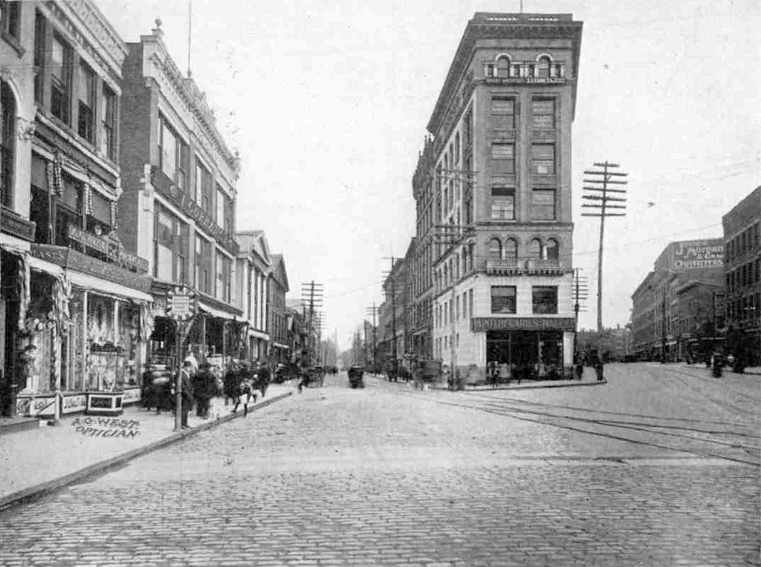 Postcard picture of South Main Street, Waterbury; postcard, circa 1910 (name of Wikipedia picture mistakenly indicates "1905"), according to store Web page; postcard features A. G. West "Optometrist and Mfg. Optician / 19 South Main Street", according to caption at right of card, outside picture (store Web page states: "This original ca.1910 advertising postcard is for A.G. West, Optometrist, of Waterbury, Connecticut")